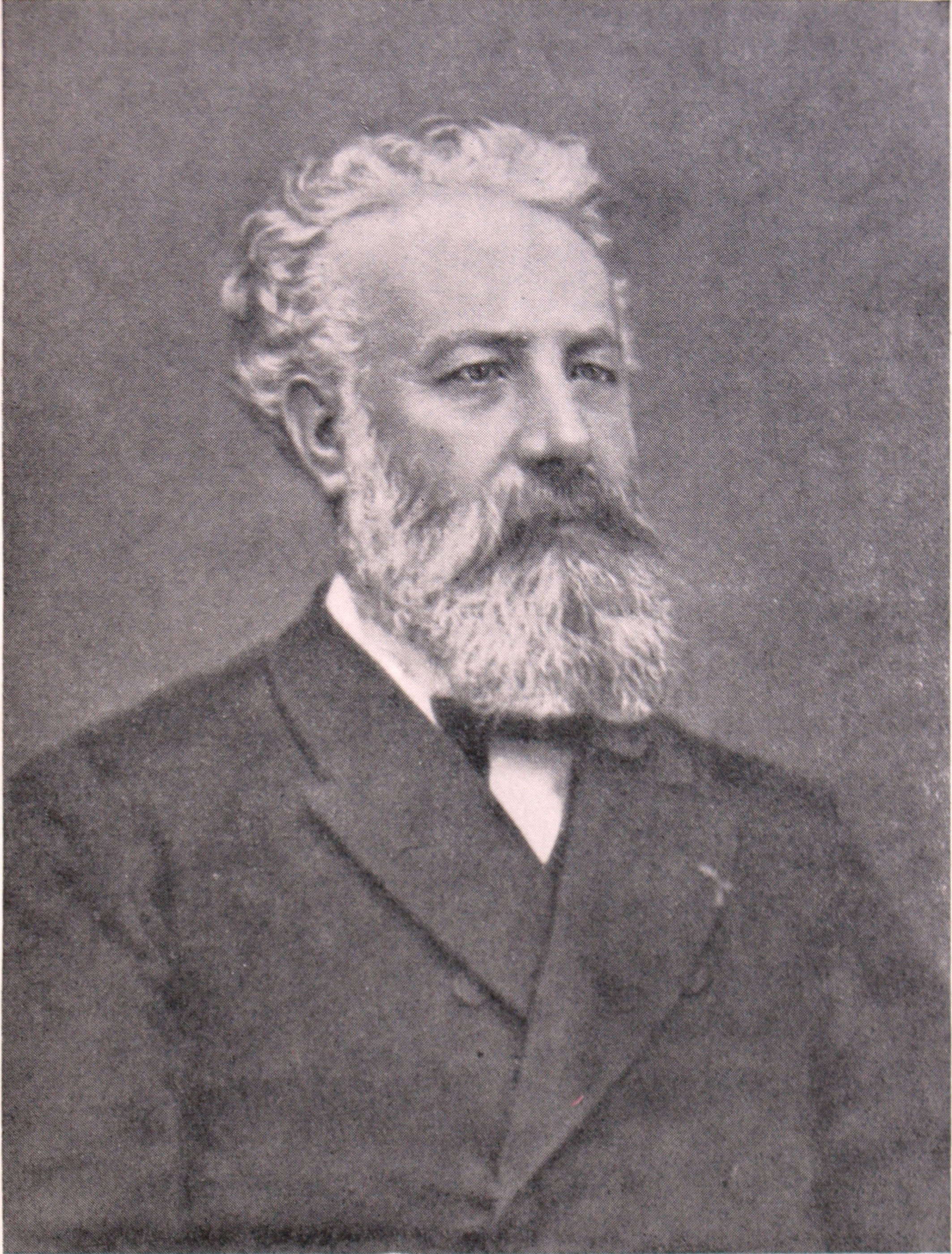 Jules Verne photoportrait, end XIX century.